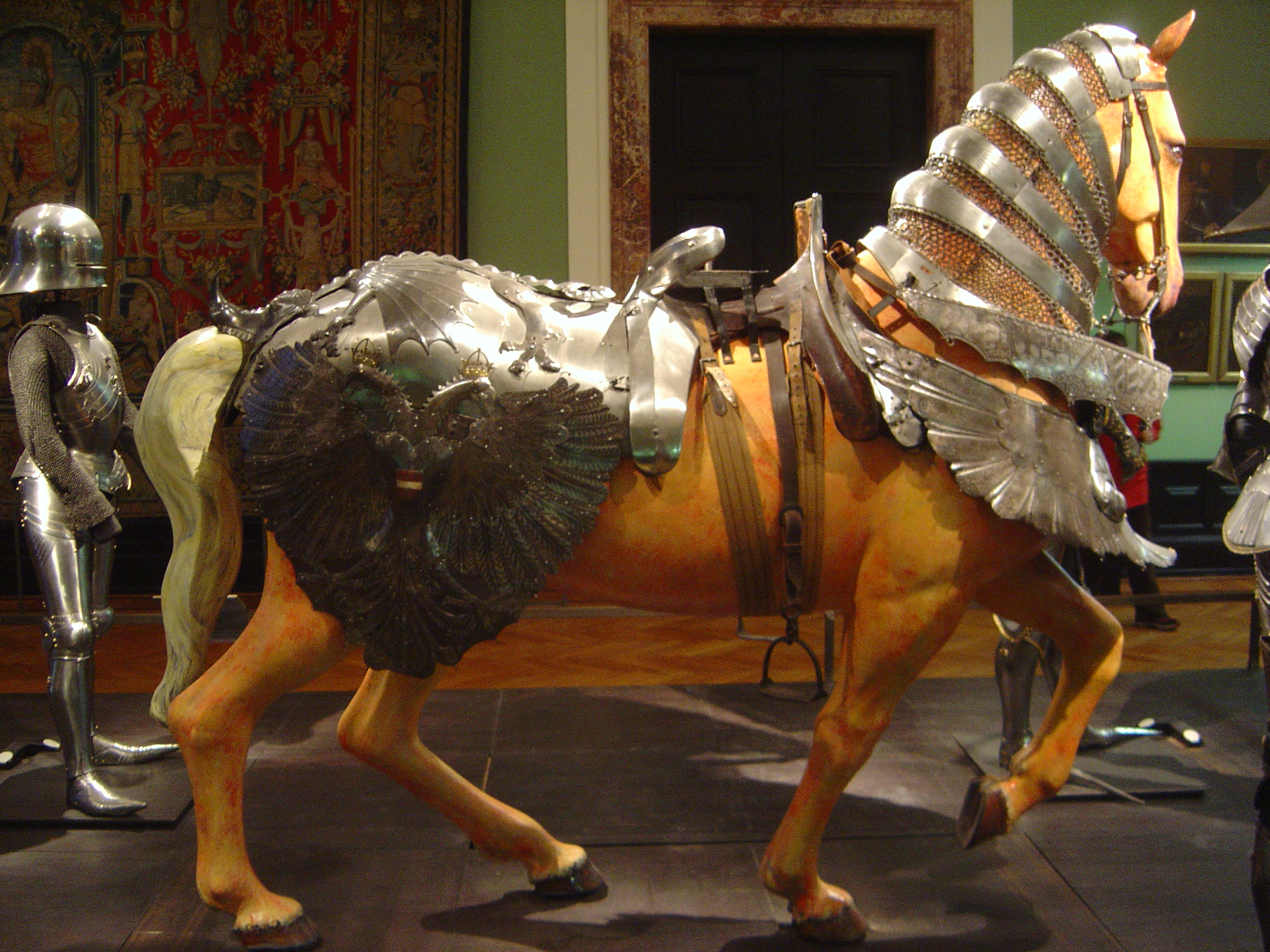 This object is on display at the annex of the Kunsthistorisches Museum (Museum of Art History) at the Neuburg in the Hofburg of Vienna, Austria (site).